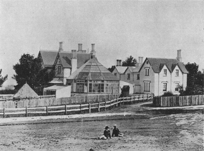 old photo of Duntroon homestead from 1870